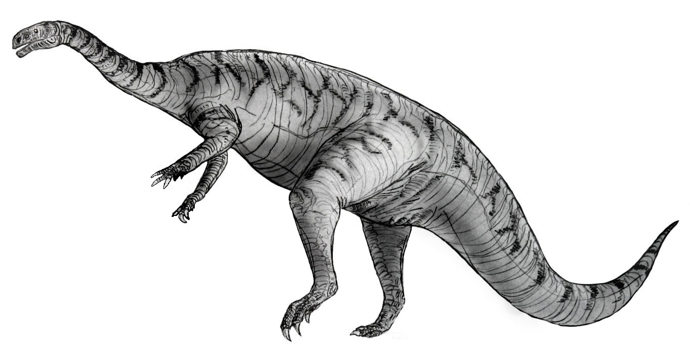 The Triassic prosauropod Plateosaurus. Sketch by Tim Bekaert, 2006 based on mounted skeleton.